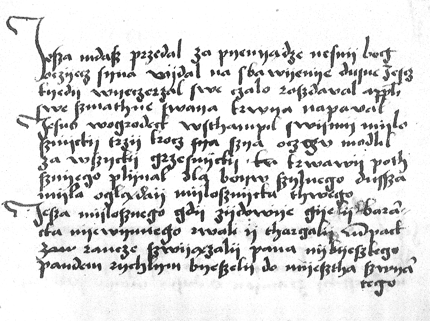 Beginning of Jezusa Judasz przedał za pieniądze nędzne by Władysław z Gielniowa (15th century).